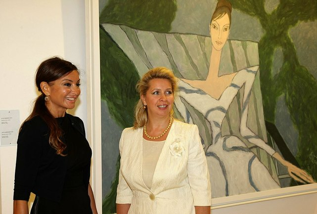 Svetlana Medvedeva and Mehriban Aliyeva in Baku. Baku Museum of Modern Art.